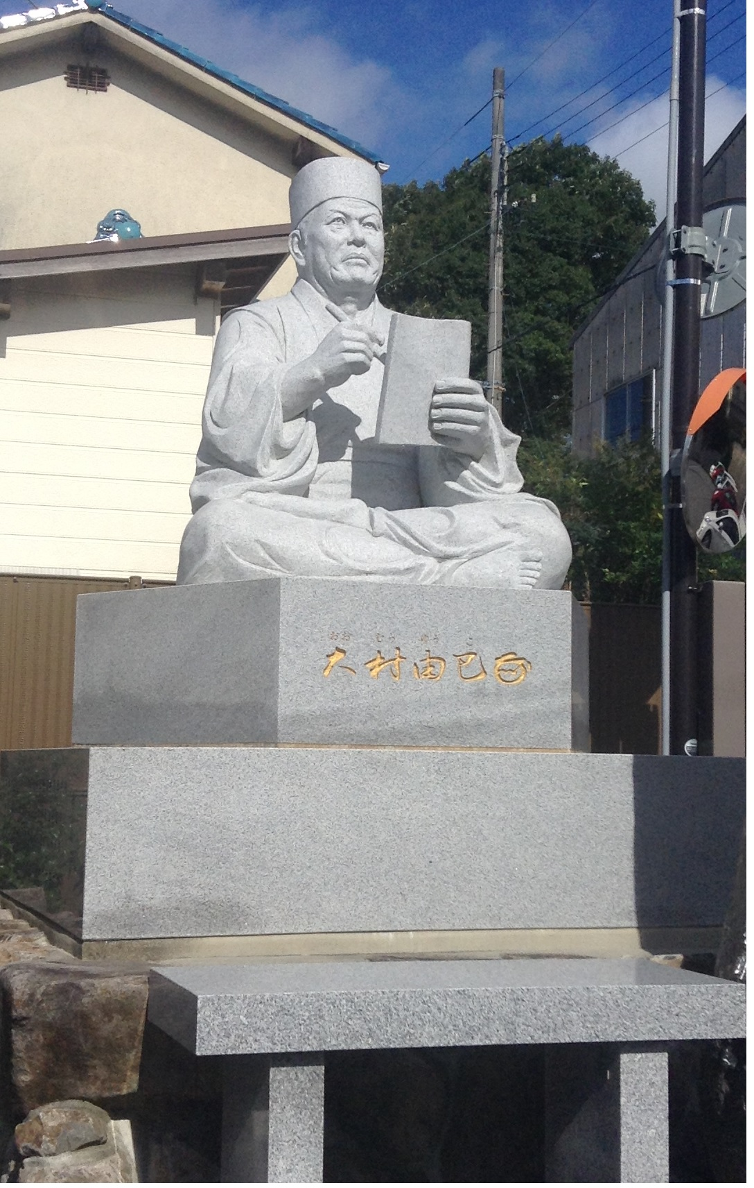 Stone statue of Omura Yuko in Omura, Miki-shi